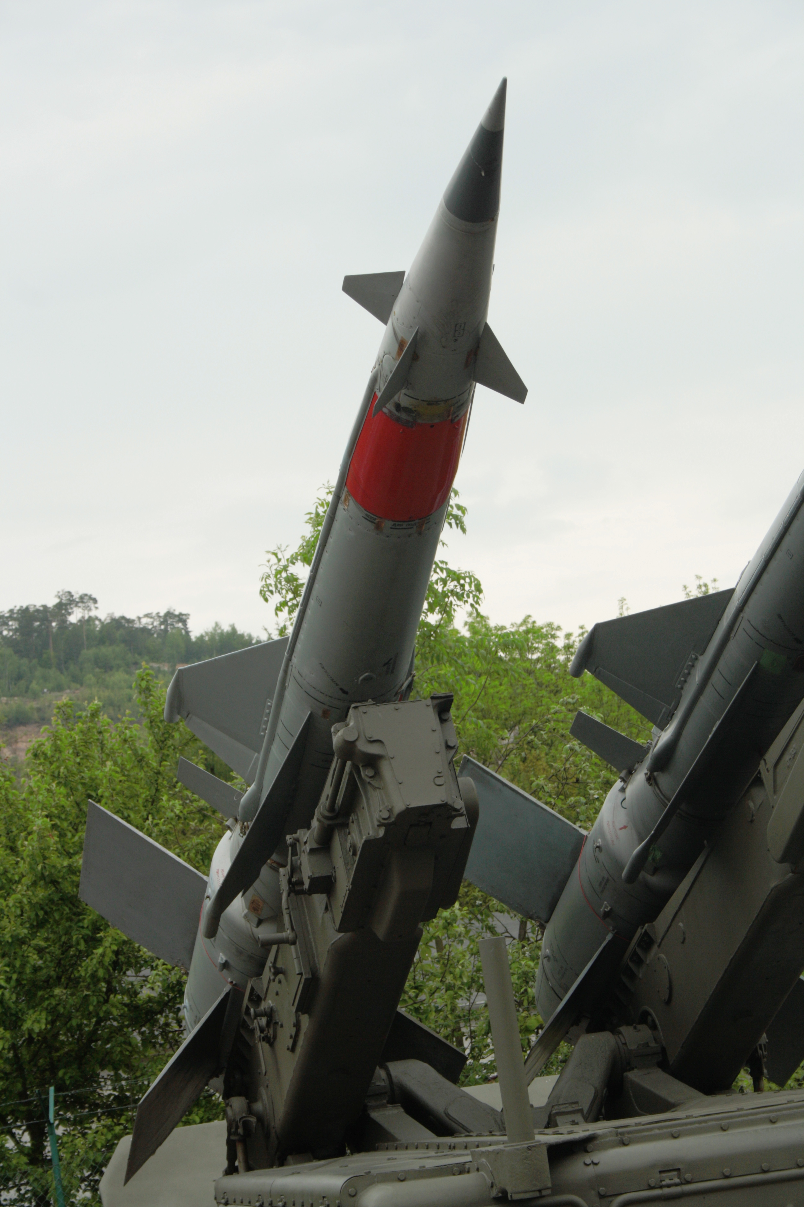 S-125 Něva anti-aircraft complet (SA-3 Goa) in Lešany military museum, Central Bohemian Region, CZ This photograph was taken with a DSLR from WMCZ's Camera grant. This picture was taken and/or got within the scope of the 'Acquiring scientific and specialized pictures' grant.